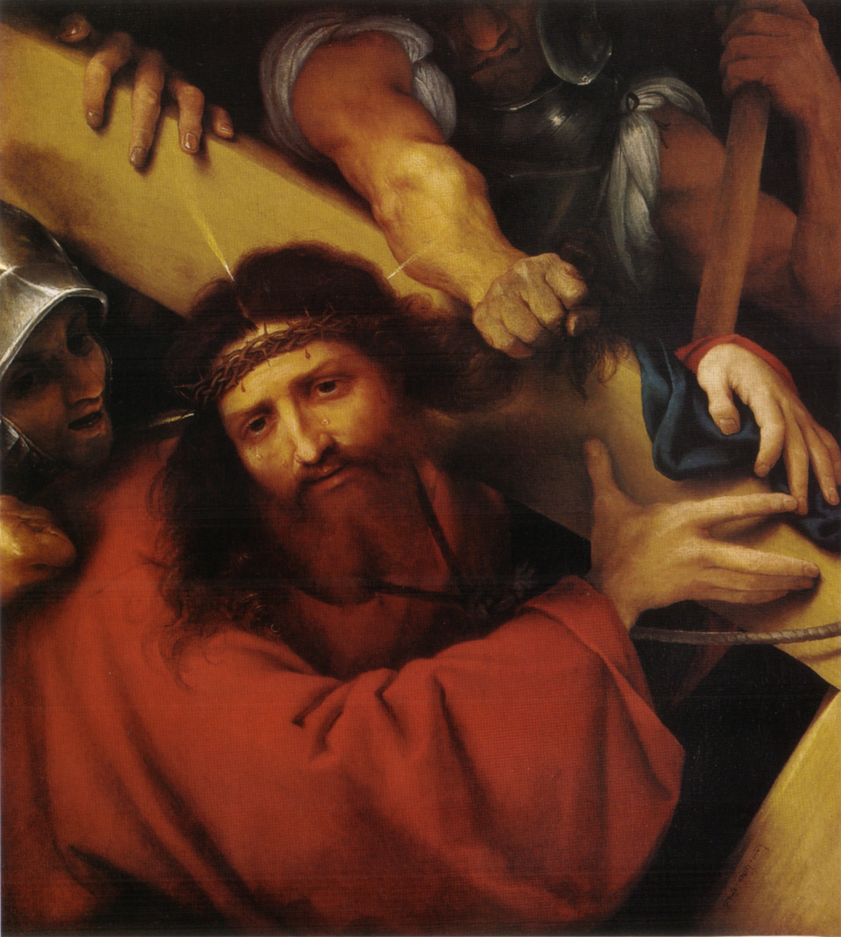 Christ Carrying the Cross, 1526, Oil on canvas, 66 x 60 cm Musée du Louvre, Paris